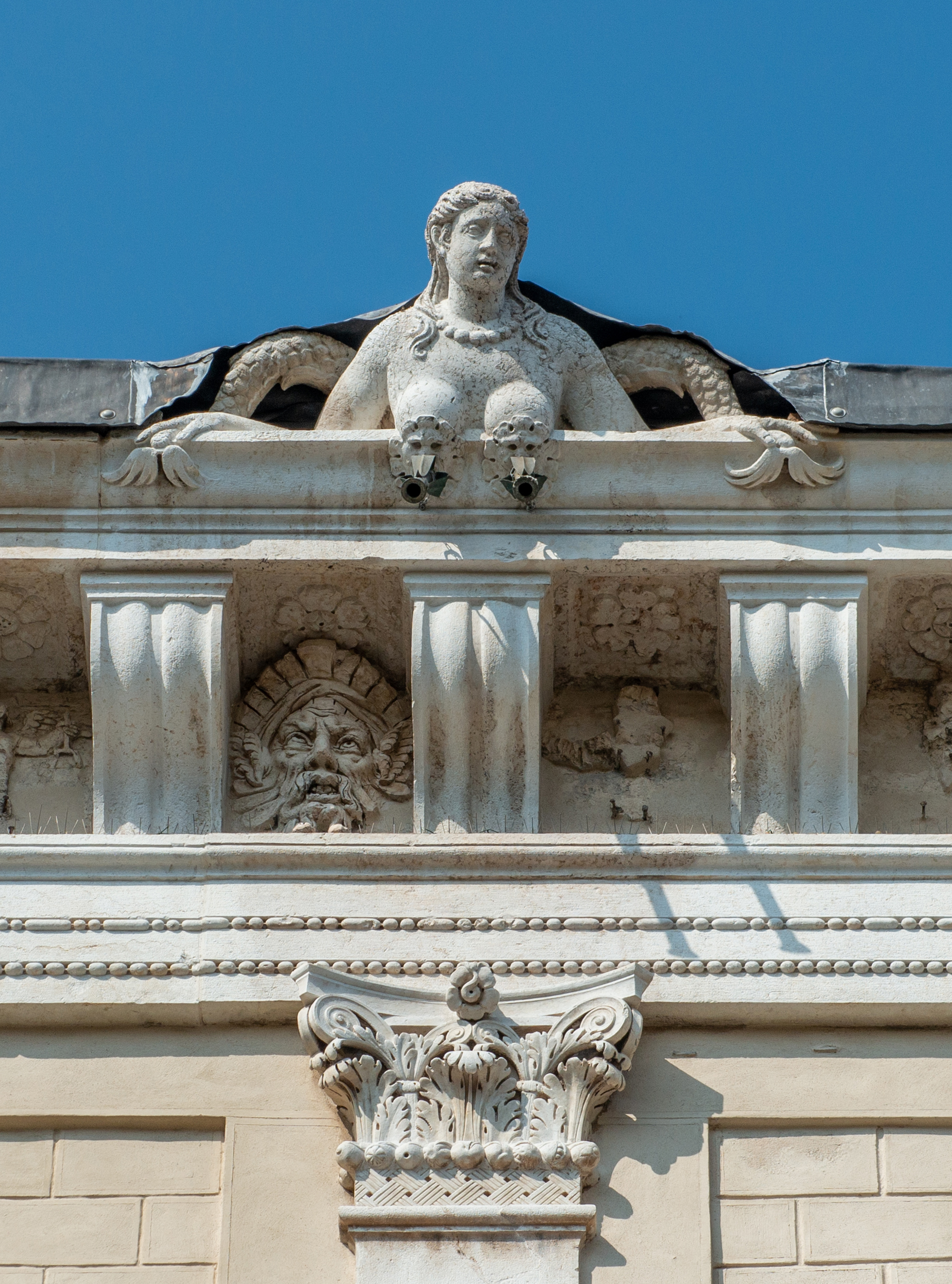 Palazzo Cigola Fenaroli in Brescia.